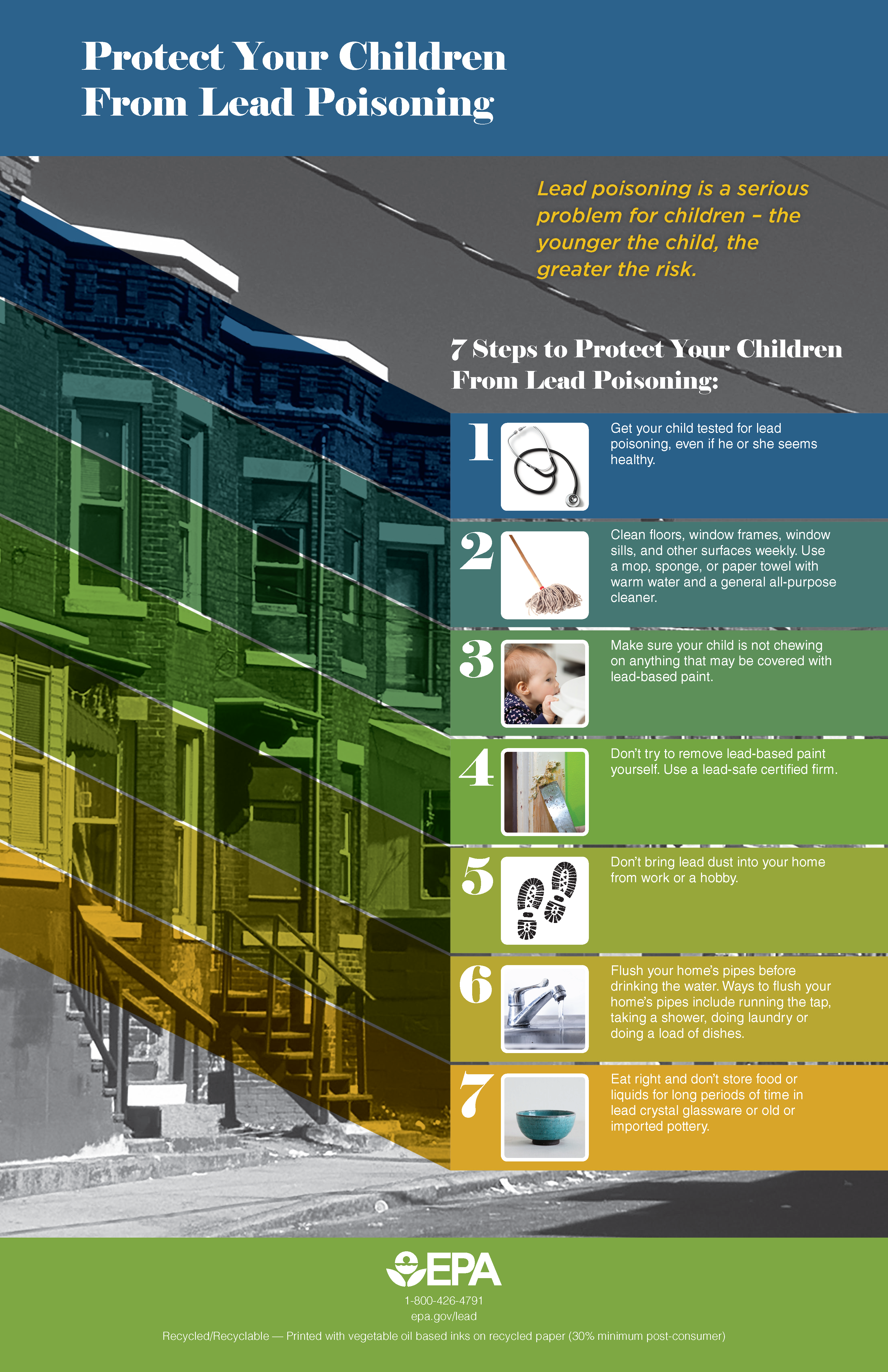 Poster, "Protect your children from lead poisoning."